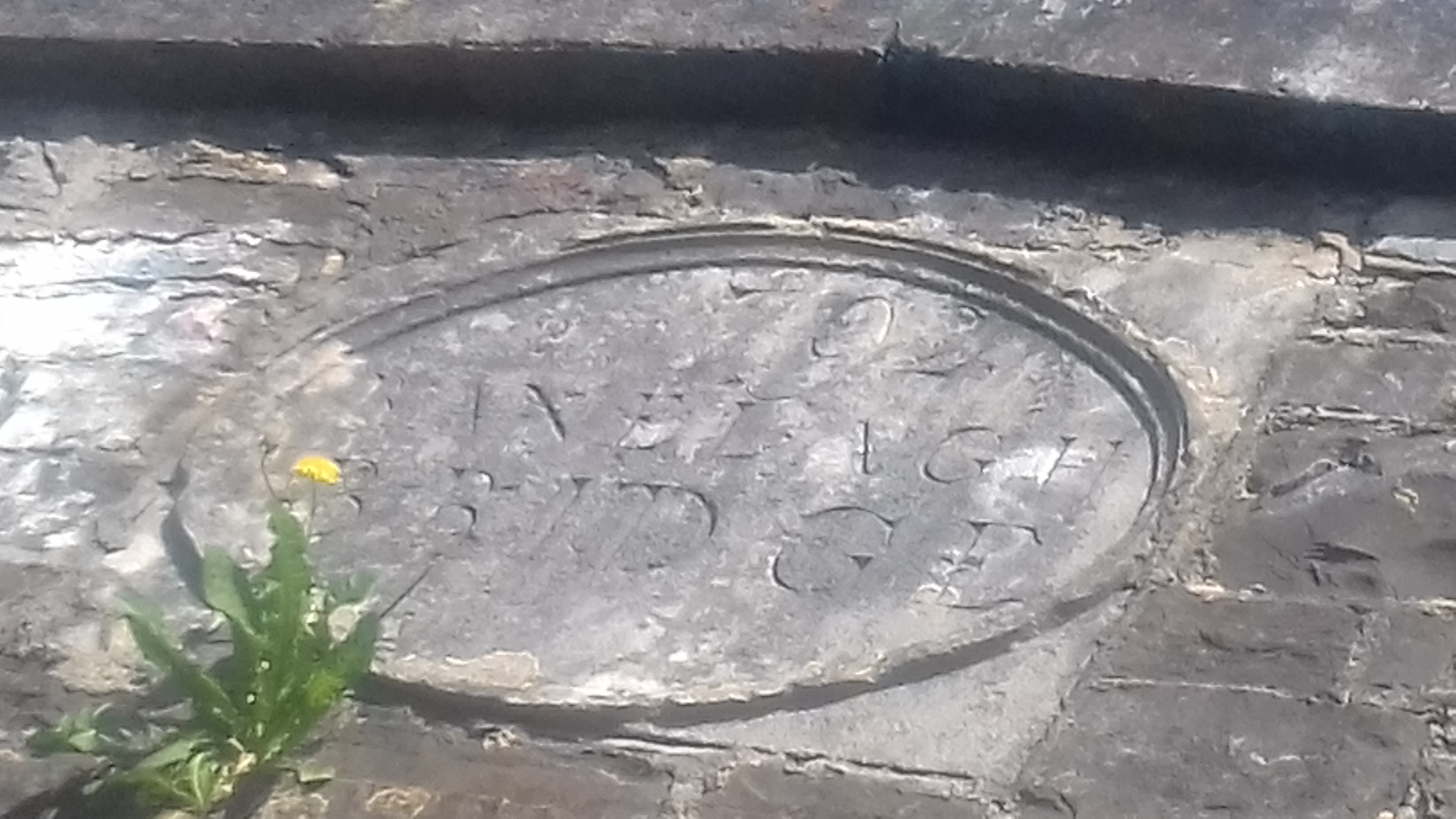 Located between the 11th and 12th locks of the Royal Canal near the J6 junction of the M50 motorway before the canal is carried by an aqueduct across the motorway. Was Viscount Ranalagh a director of the Company?